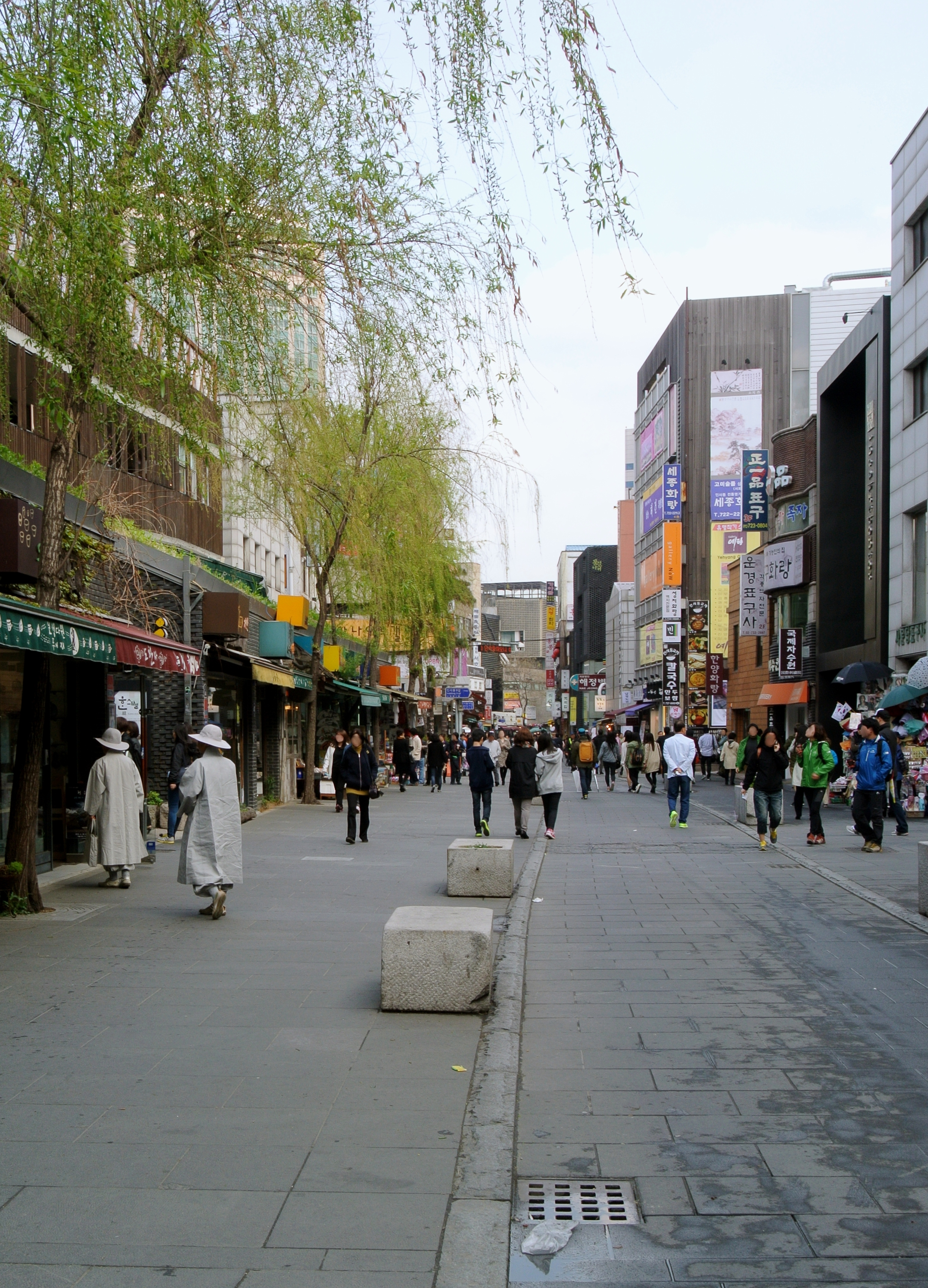 Insadong-gil, looking southeast, Jongno-gu, Seoul.